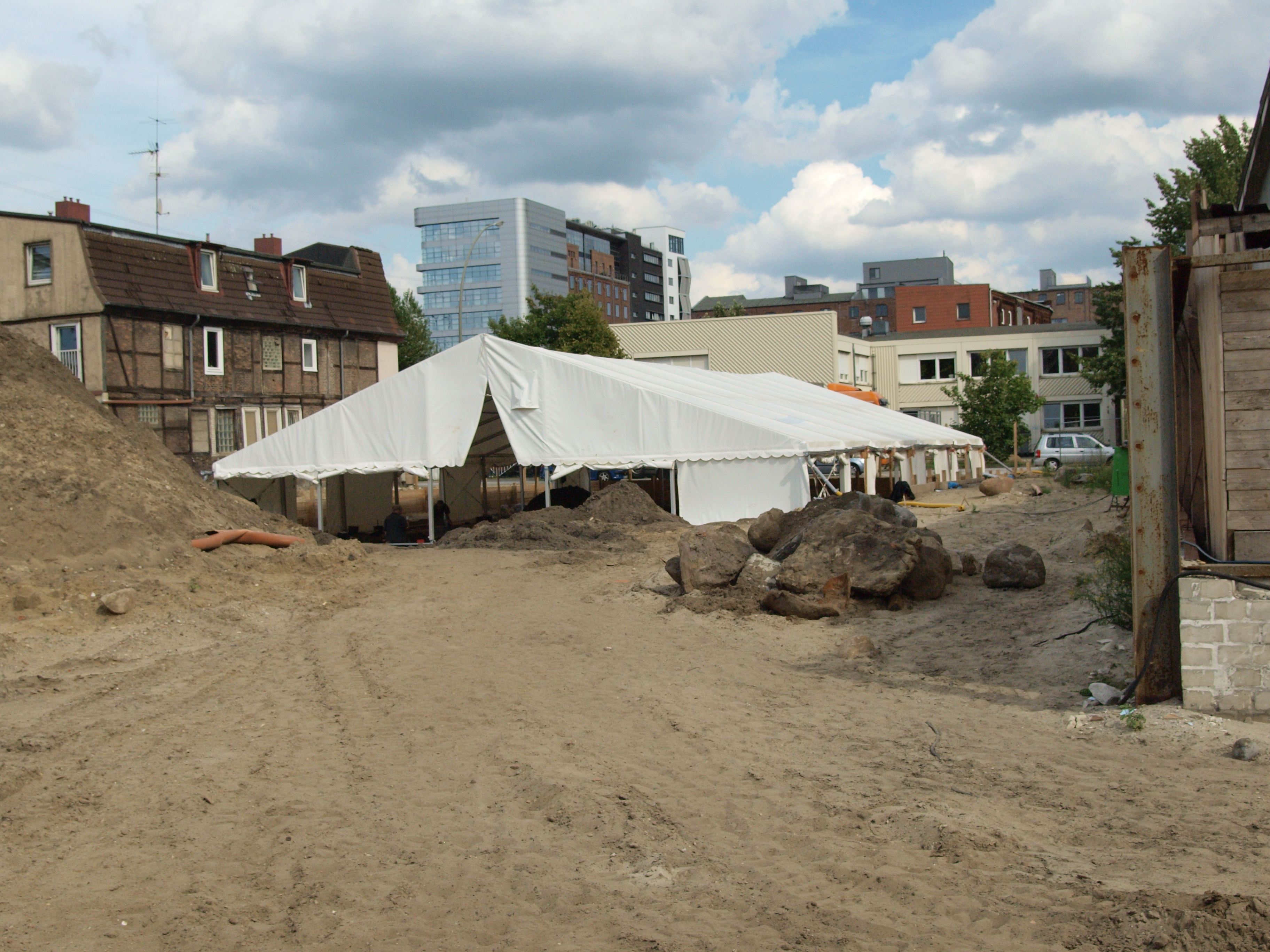 Archaeological excavations at Harburger Schloßstraße, in Hamburg-Harburg, Germany by Archaeological Museum Hamburg in summer 2012. Excavation tent.